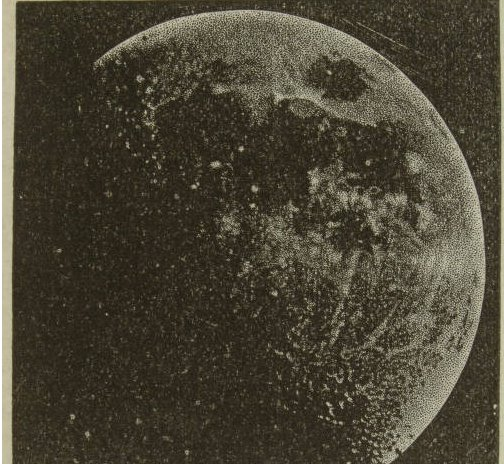 Leggotype halftones from photographs of the moon in The American cyclopaedia